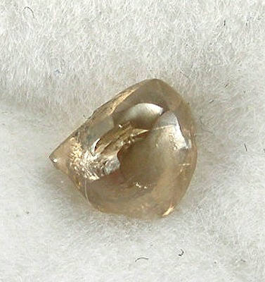 Diamond Locality: Crater of Diamonds State Park (Arkansas Diamond Corp. Mine; Mauney Mine; Ozark Mine; Prairie Creek Lamproite), Murfreesboro, Pike County, Arkansas, USA (Locality at ) Size: 0.5 x 0.5 x 0.4 cm. A lustrous, gemmy, 0.74 carat, transparent, rounded and mostly clean, white diamond from Crater of Diamonds State Park, Arkansas. The crystal was found by Billy Moore in March, 2009 and comes with a Park card. A very nice-sized, displayable specimen. Stones of this size, validated and actually not too ugly, are rare. This park sits on a small and ancient diamond-bearing tube, but the diamonds themselves, mined now for a long time and petering out on top, are hard to find amidst the tonnage.